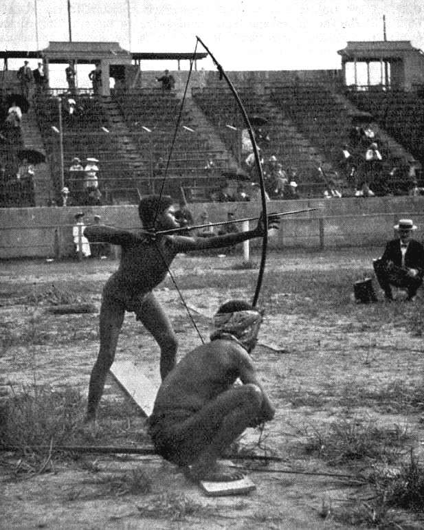 Archery on Antropology days during 1904 Summer Olympics